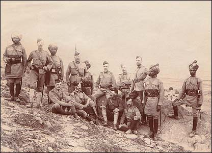 Image for Siege of Malakand from BBC news article copyright expired.